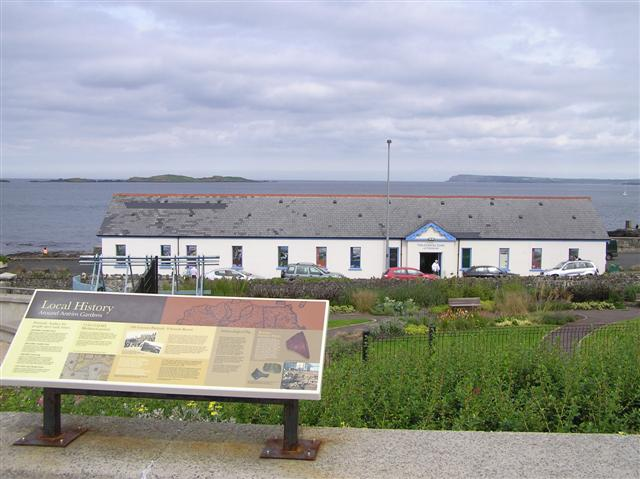 Portrush Countryside Centre An interesting wild life display centre. It is located on Bath Road.